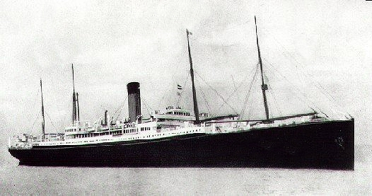 Ocean liner Ceramic, built by Harland and Wolff for White Star Line in 1912, sold to Shaw, Savill and Albion Line in 1934 and sunk by a U-boat in 1942